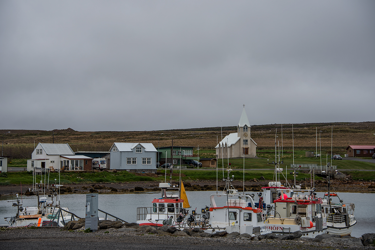 Þórshöfn village in northern region in Iceland Other information Photographer Einar Páll Svavarsson at Hit Iceland